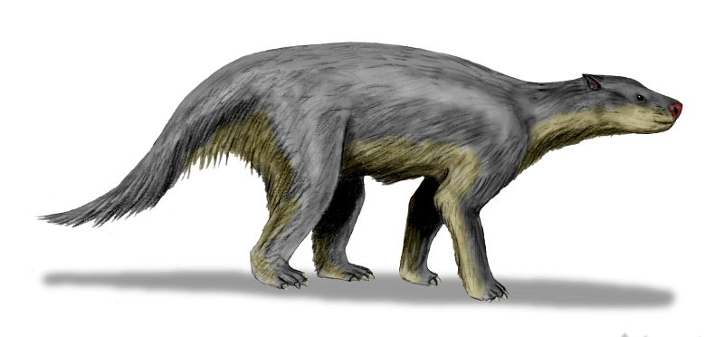 Barylambda faberi, a pantodont from the Paleocene of North America, pencil drawing, digital coloring